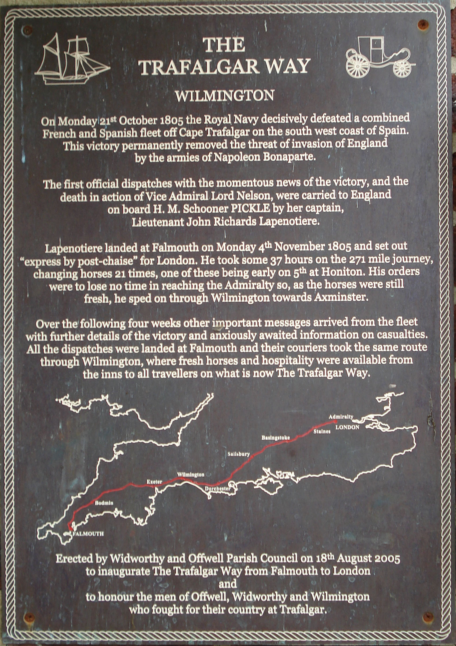 An example of a Trafalgar Way plaque erected at a point on the route where Lt Lapenotiere, the first dispatch rider, did not stop but subsequent messengers may have tarried for a rest or refreshement.